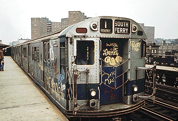 An R36 type New York City Subway car leading a 1 train, September 1973. The blue/silver paint scheme represented the MTA's new corporate identity, which was introduced in 1968 and finally scrapped in 1981 due to its high cost for repainting all the cars. Moreover the car's actual paint scheme was covered by graffiti and dirt over and over.The location of this photography is the 125th St. Station.